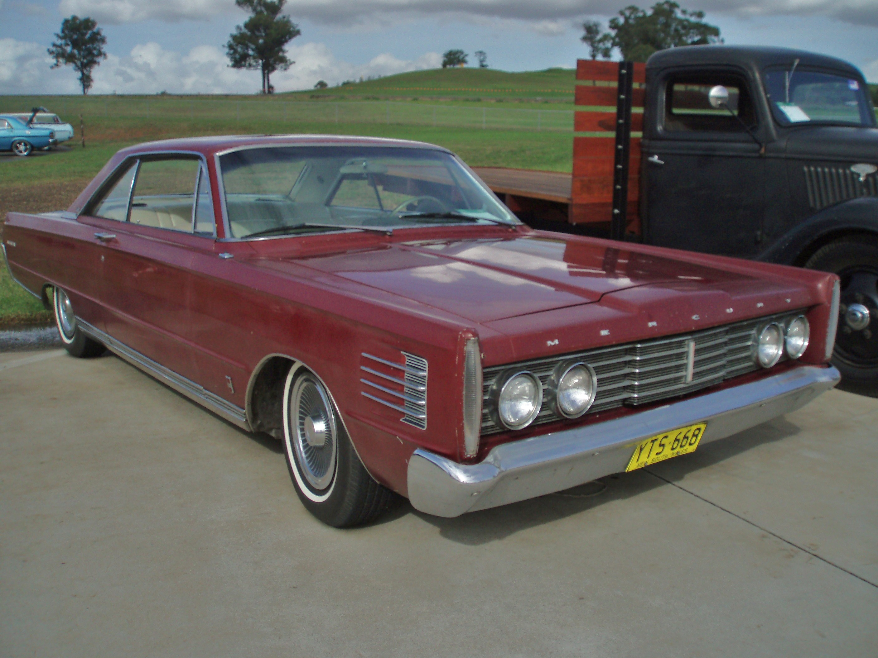 1965 Mercury Park Lane coupe. Taken at the New South Wales All Ford Day 2009, held at Eastern Creek Raceway Sydney.